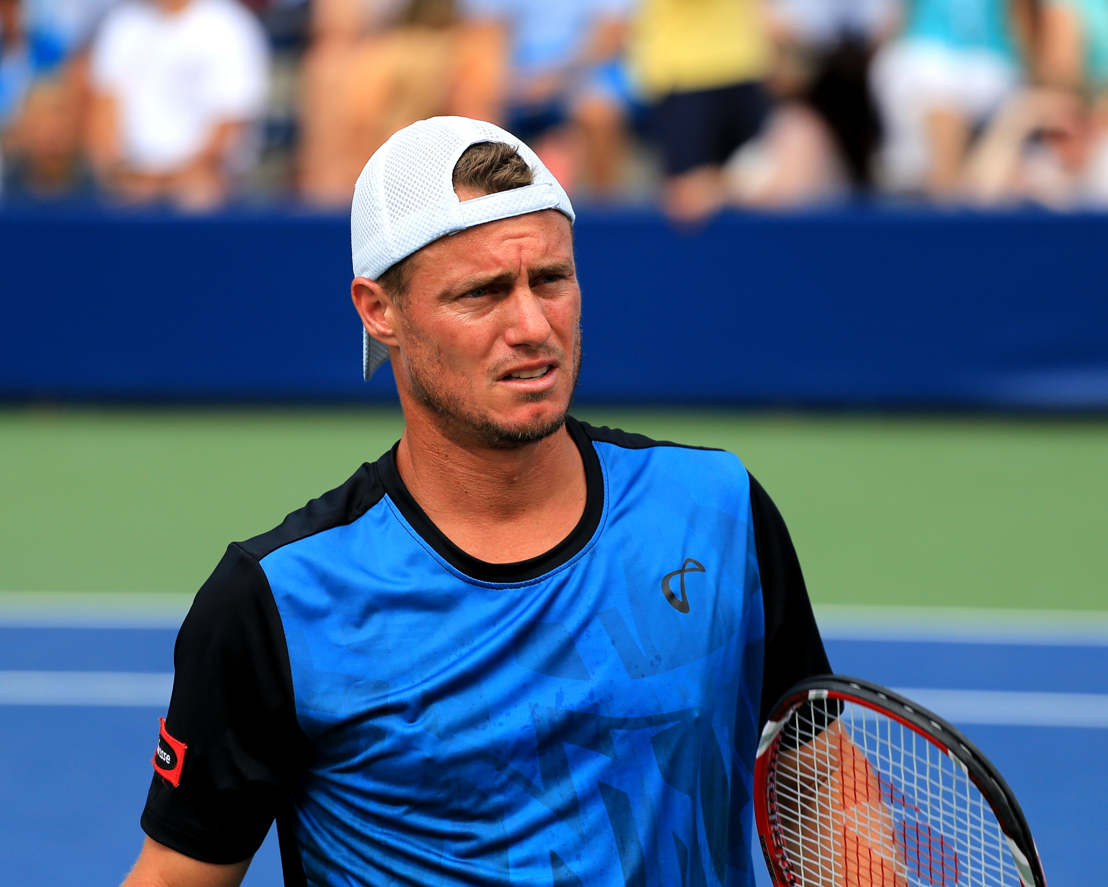 Lleyton Hewitt at the 2015 US Open